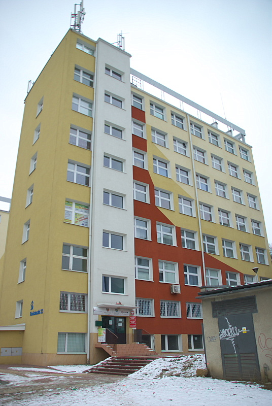 23 Kościuszki Street in Sanok office building Gmina Sanok